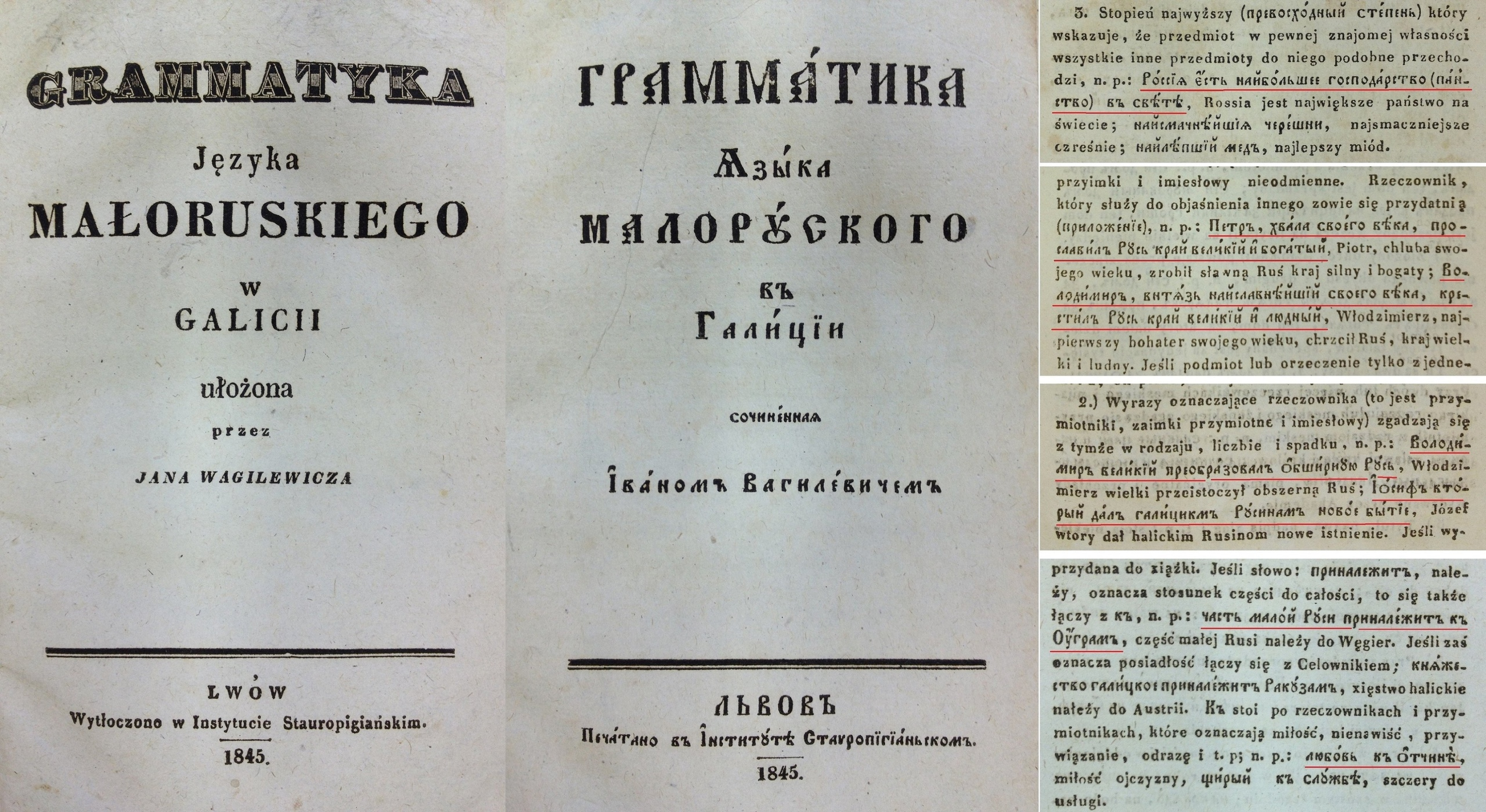 Example of Ukrainian language in Galicia 1845